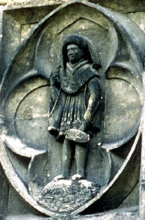 Jacques Coeur (sculpture Jacques Coeur house)